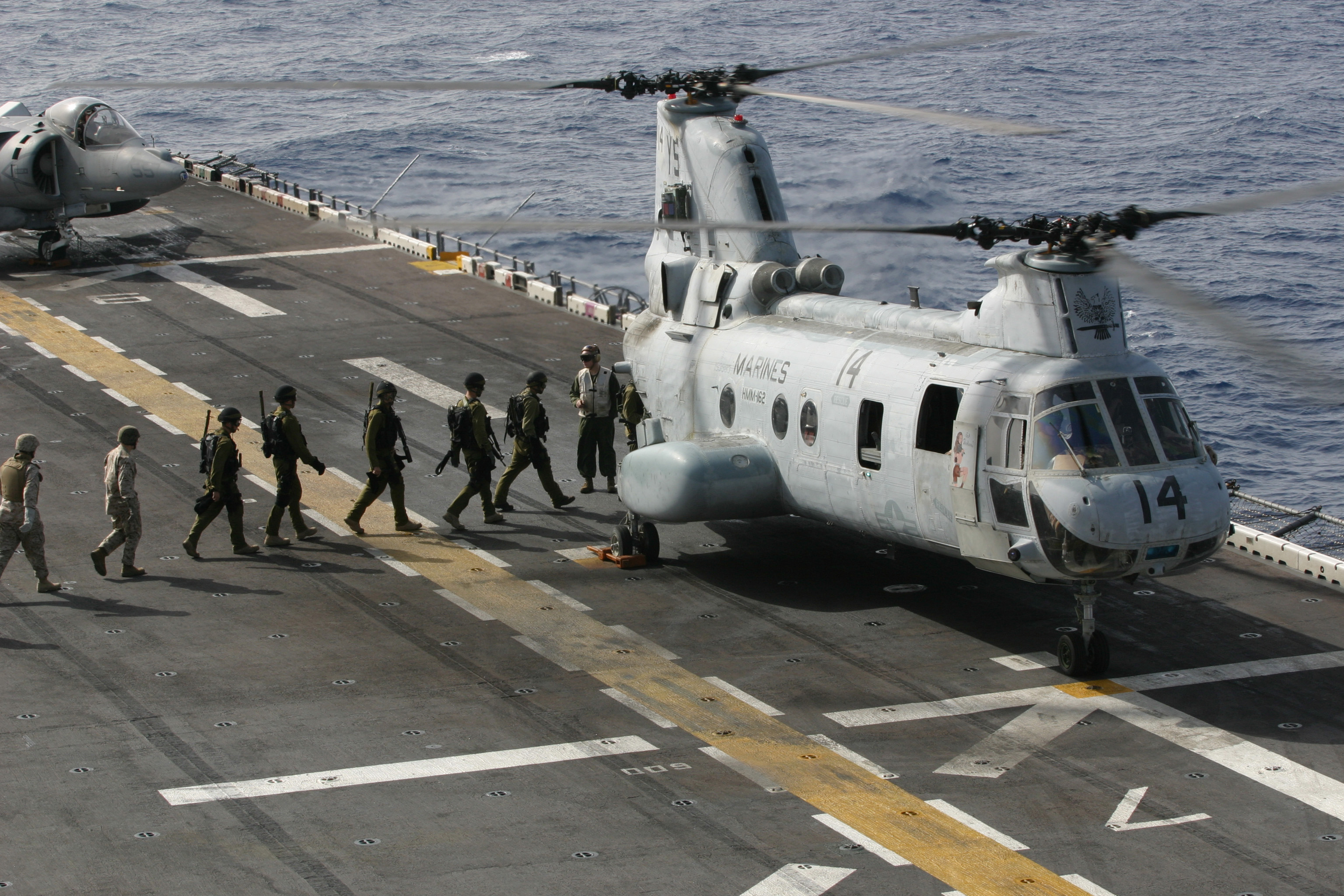 Mediterranean Sea (April 15, 2005) - Marines assigned to the 26th Marine Expeditionary Unit (special operations capable) along Israeli Defense Force soldiers fast rope from a CH-46E Sea Knight helicopter onto the flight deck of amphibious assault ship USS Kearsarge (LHD-3). Marines assigned to the MEU trained with the Israeli soldiers to keep their skills sharp and to build foreign relationships. Kearsarge and 26th MEU are on deployment in support of the global war on terrorism. U.S. Marine Corps photo by Sgt. Roman Yurek (RELEASED)